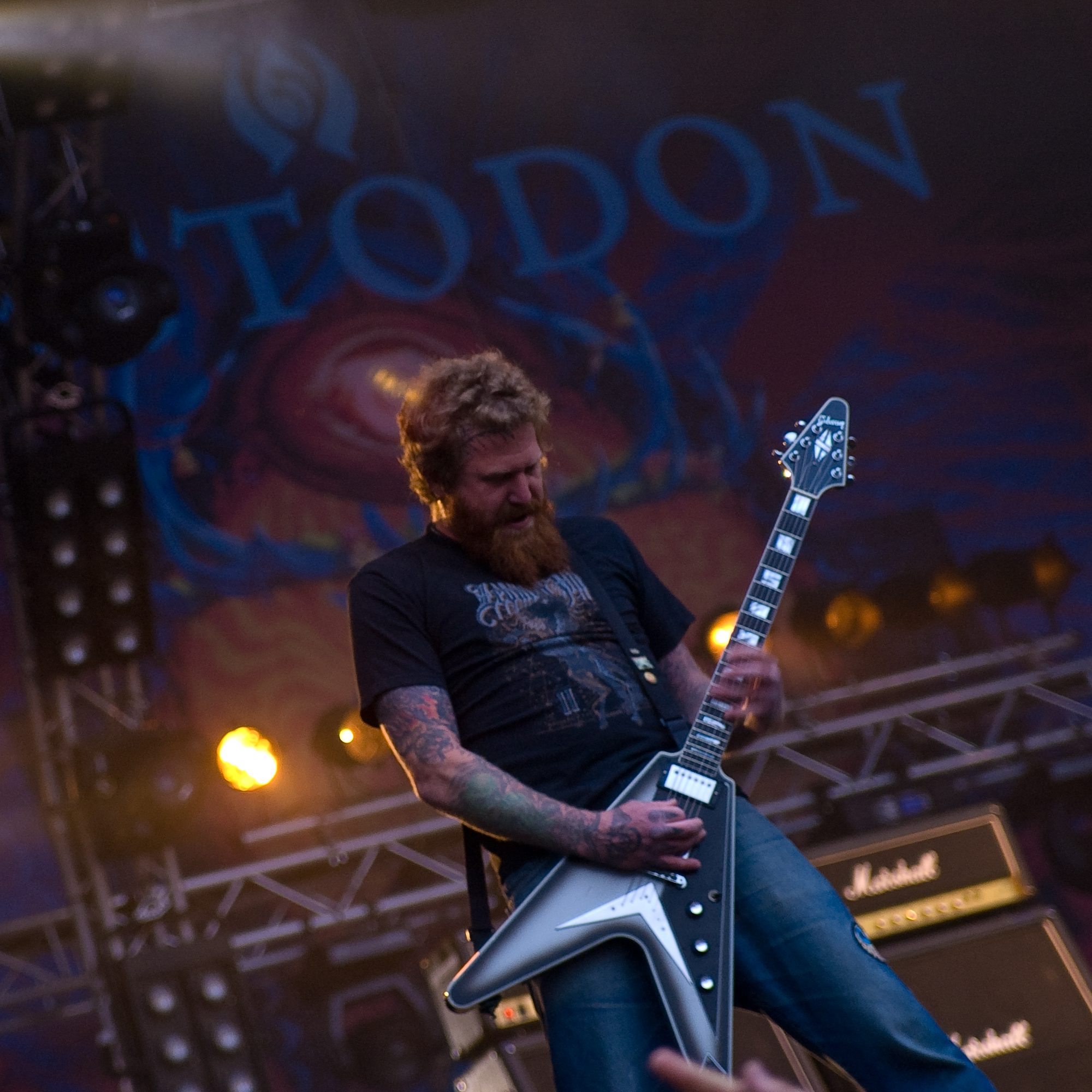 Brendt Hinds of Mastodon at Ruisrock 2007